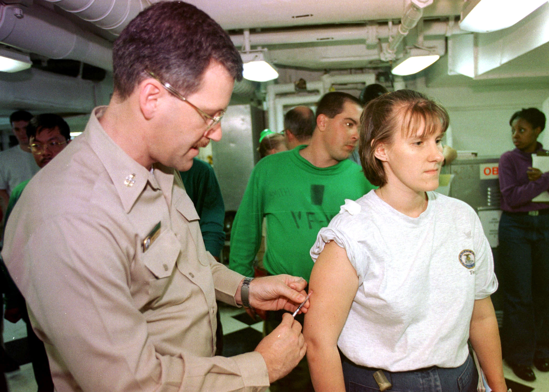 980317-N-6901L-002 At sea aboard USS John C. Stennis (CVN 74) Mar. 17, 1998 -- Senior Chief Hospital Corpsman John Payhurst from Virginia Beach, VA, administers the first in a series of anthrax vaccinations to one of 6,000 sailors aboard the aircraft carrier. Stennis is deployed to the Persian Gulf in support of Operation Southern Watch. U.S. Navy photo by Photographer's Mate 3rd Class Mike Larson. (RELEASED)